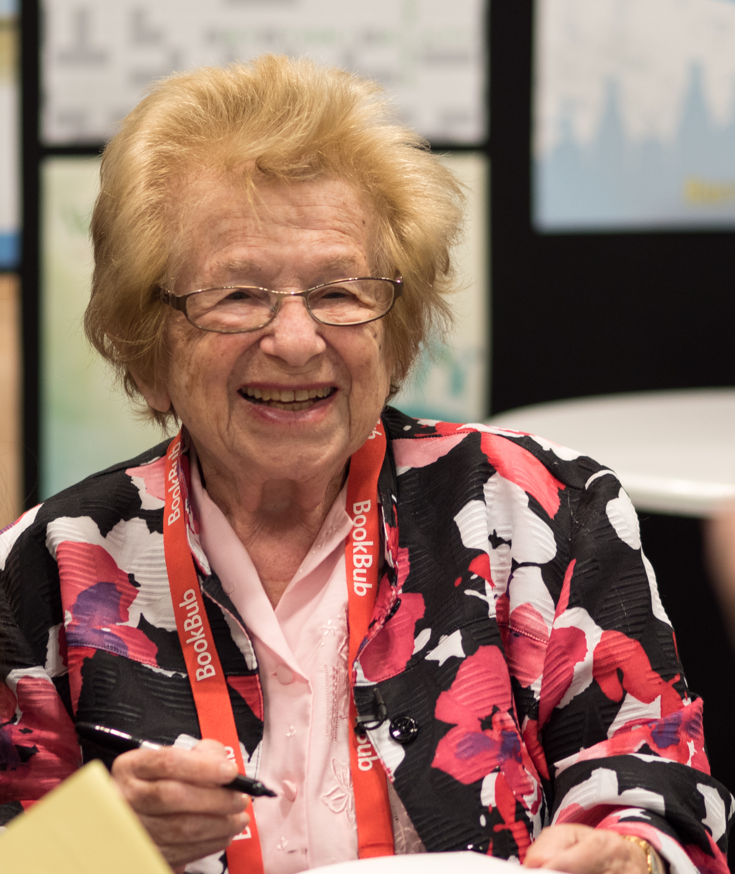 Ruth Westheimer (Dr. Ruth) BookExpo America 2018 at the Javits Convention Center in New York City.